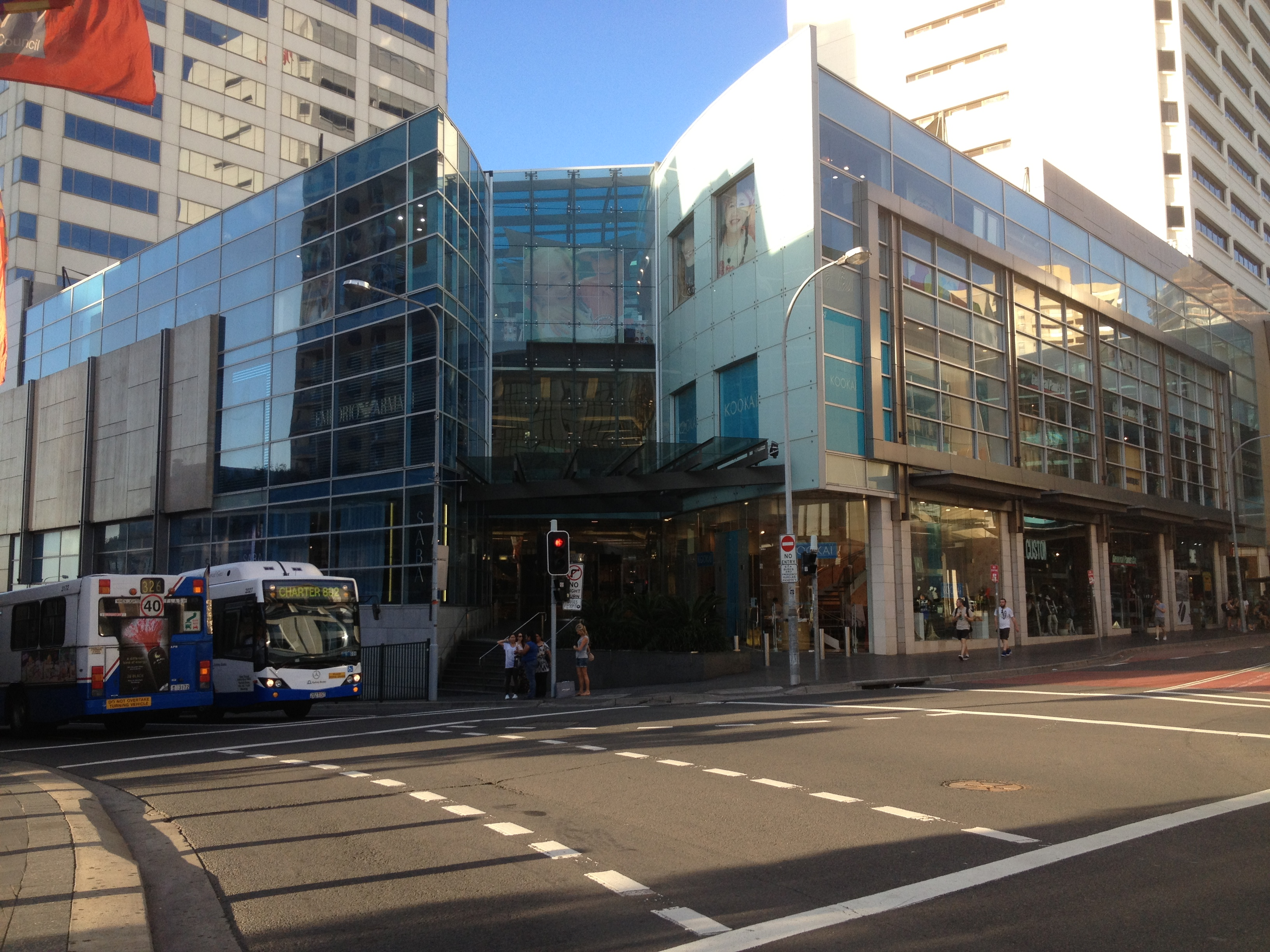 Westfield shopping centre at Bondi Junction.